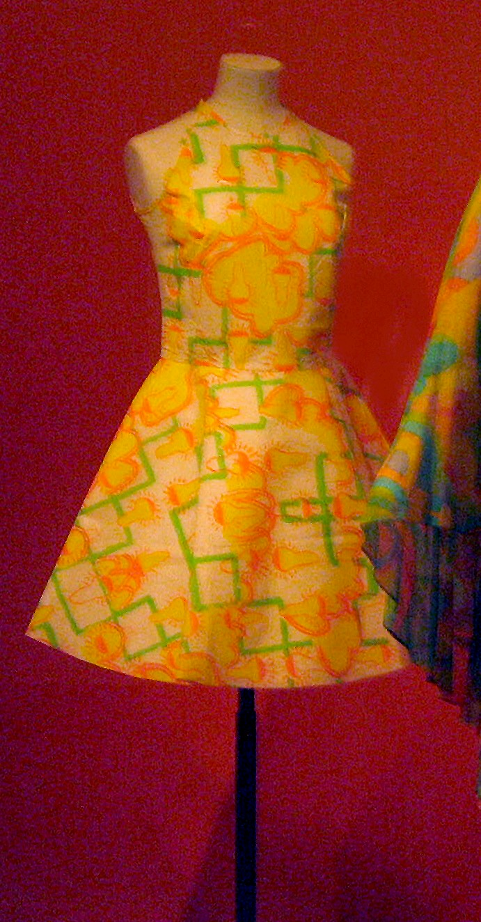 Dress, Sylvia Ayton and Zandra Rhodes, 1966. For more info, see V&A [ description page. Adapted from flickr photo by Nadia Priestly.